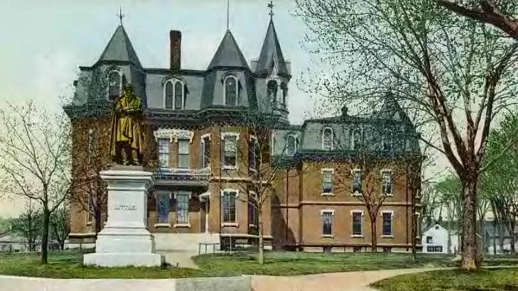 Edward Little High School, Auburn, ME; from a 1906 postcard. This shows the school's former Second Empire building.